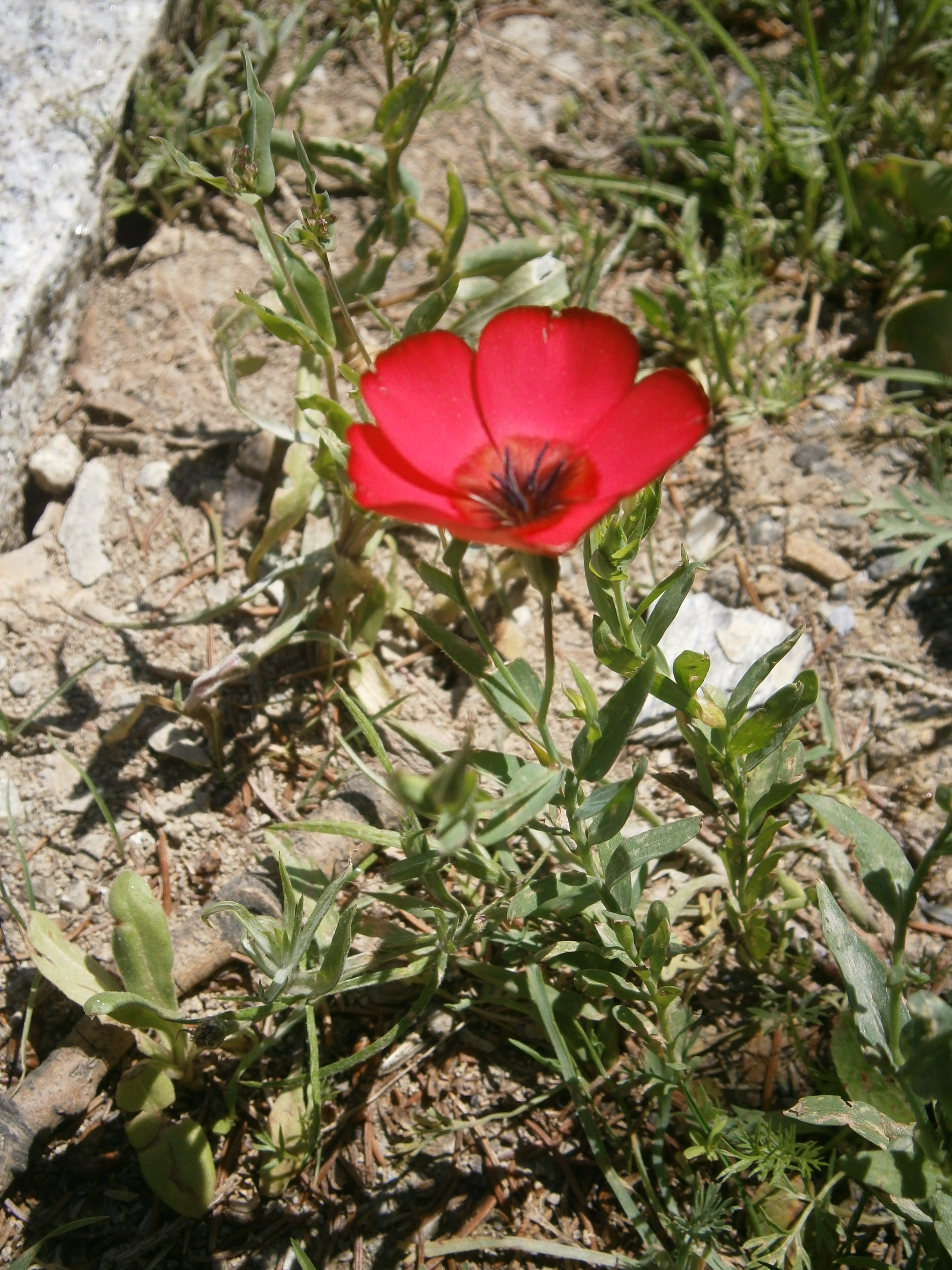 Linum grandiflorum